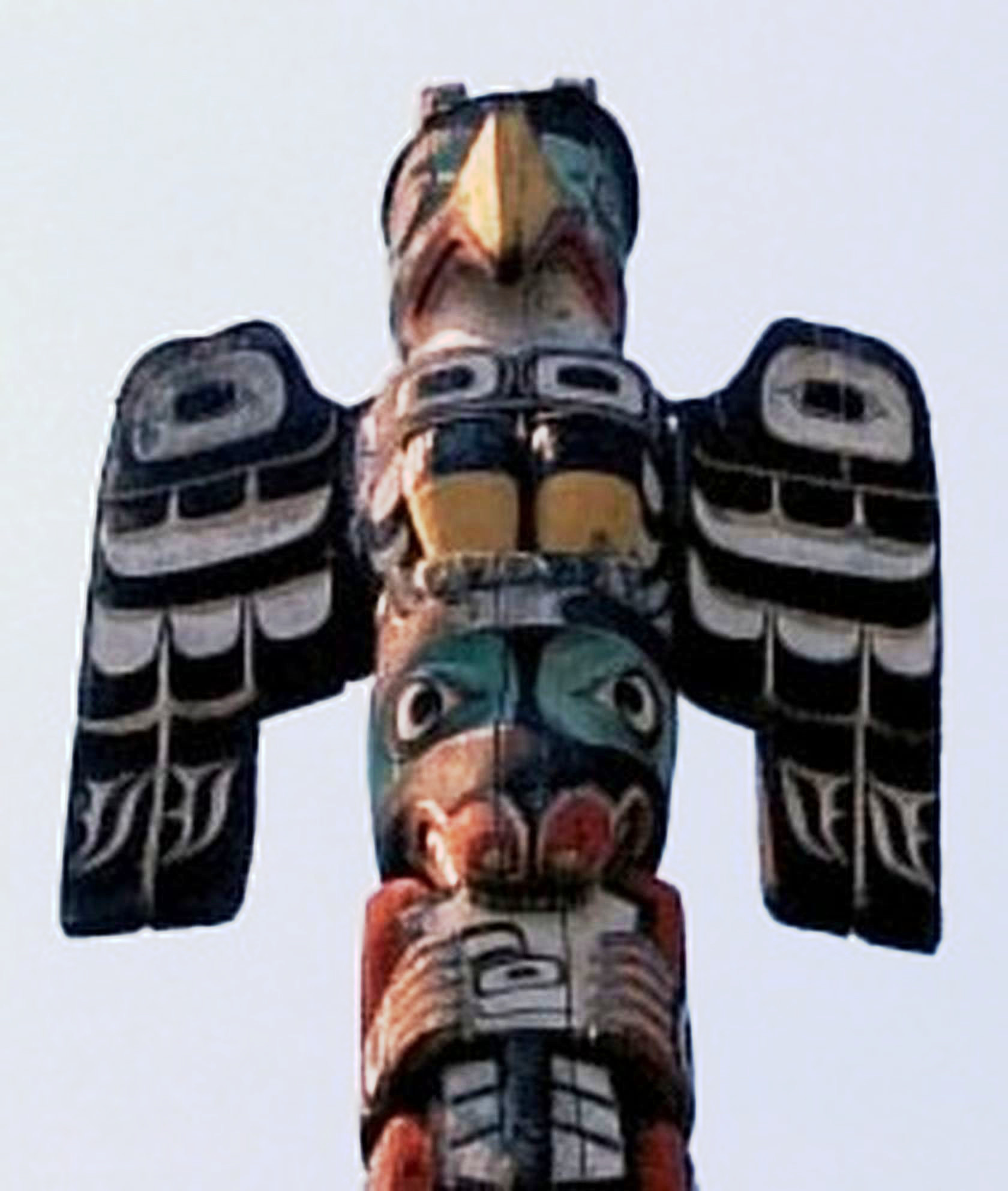 Thunderbird on top of Totem Pole in Thunderbird Park in Victoria, BC Canada. Taken by Dr Haggis on 29JUL04